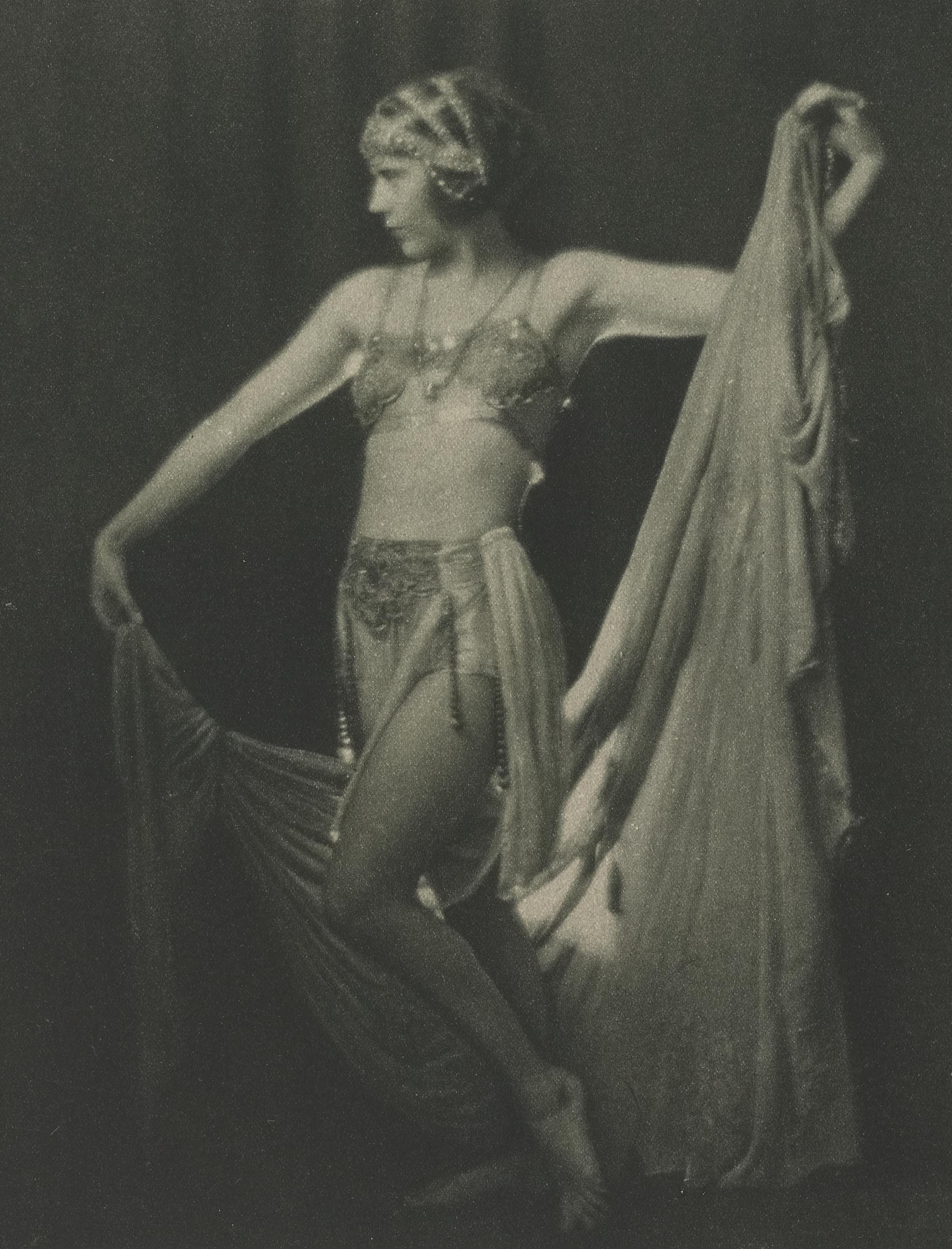 Dorska, from a 1921 publication. Photograph by Mmorrall, Rochester, New York.